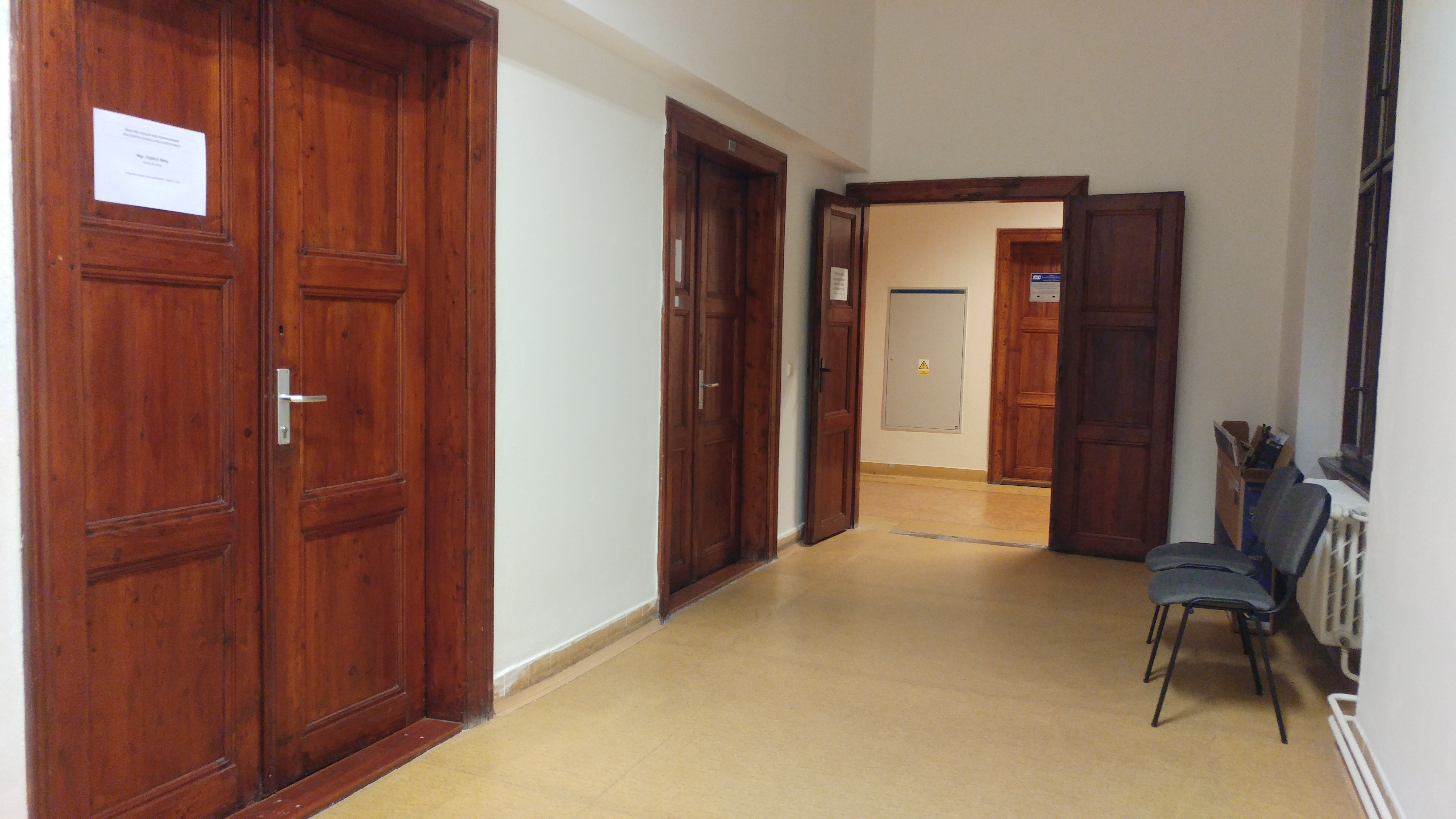 Office for Economic Supervision of Political Parties and Political Movements, Brno, Czech Republic